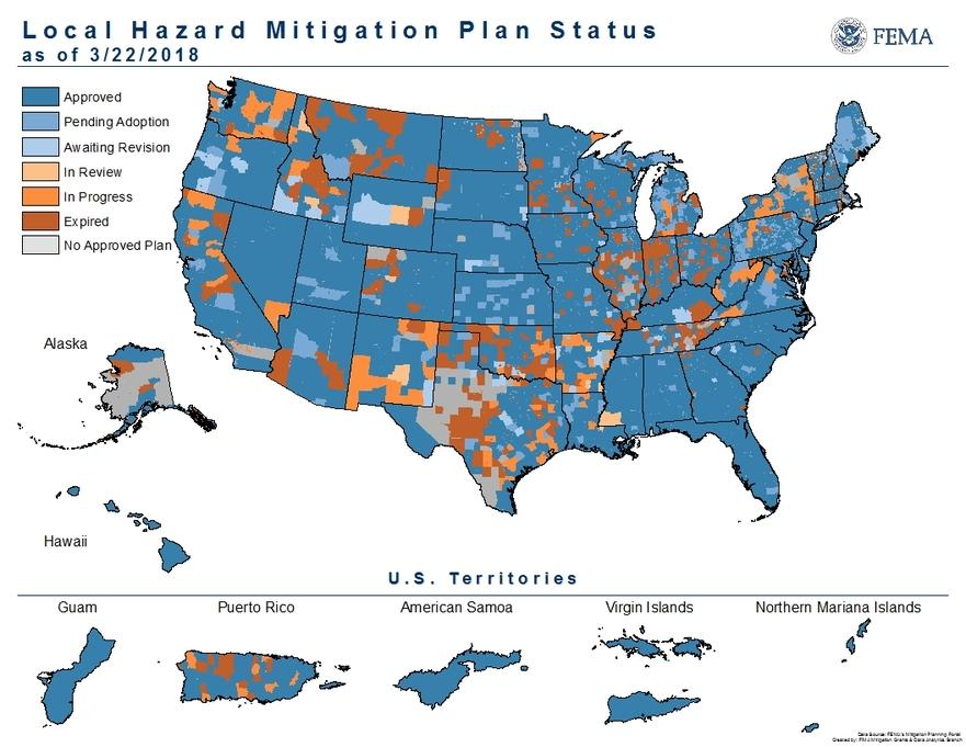 FEMA recognizes the importance of hazard mitigation plans by supporting state, local, tribal, and territorial governments in plan development /updates with training, resources, and funding through two pre-disaster, Hazard Mitigation Grant Programs -- Flood Mitigation Assistance (FMA) and Pre-Disaster Mitigation (PDM). The map shows the status of the total number of hazard mitigation plans nationwide.